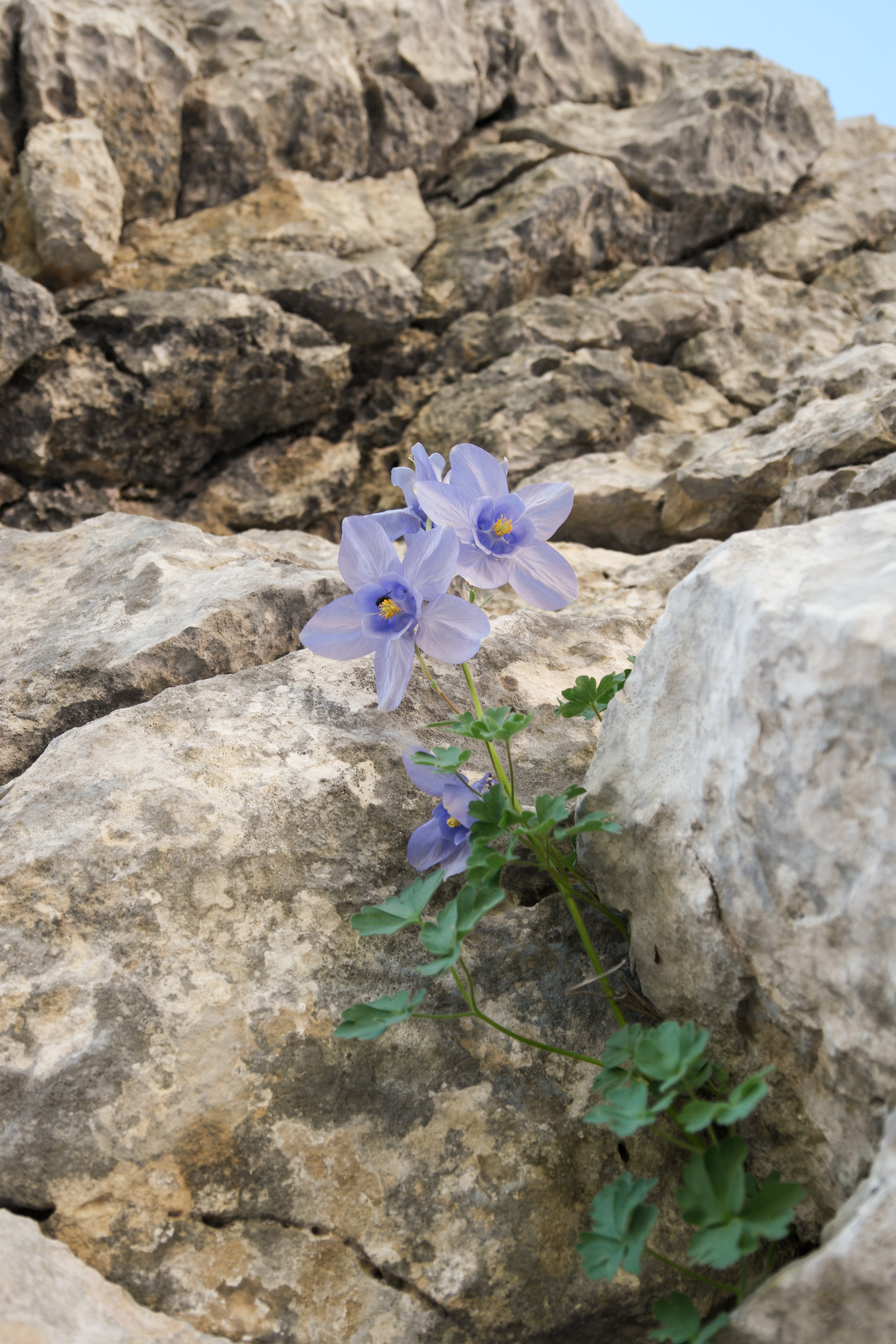 A saxicolous columbine photographed in the subadriatic Mt Orjen range in Montenegro. Its restricted to shaded rockwalls and boulder rivers.